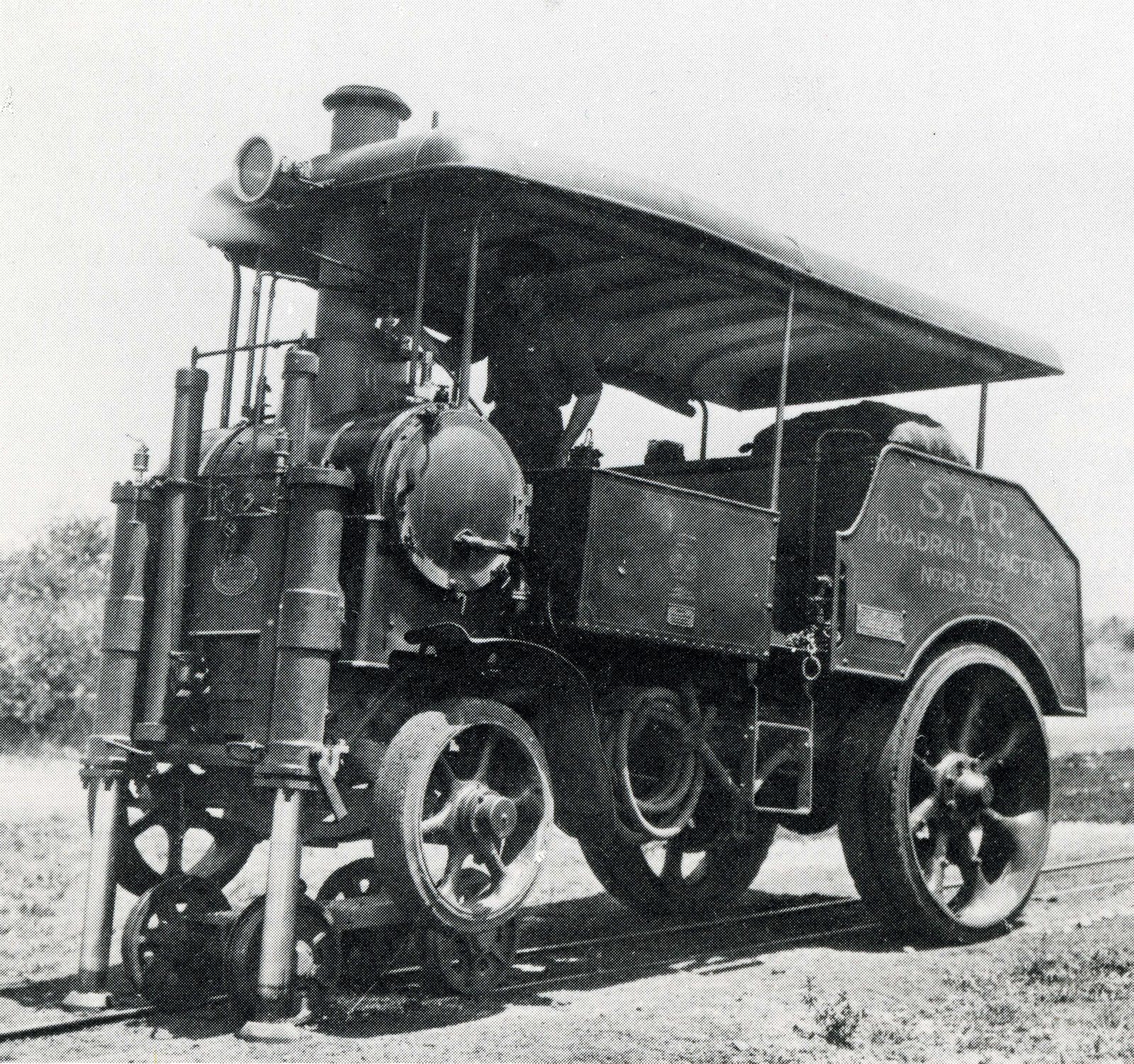 Dutton's Road-Rail tractor no. RR973, rebuilt from a William Beardmore steam tractor with a Yorkshire boiler